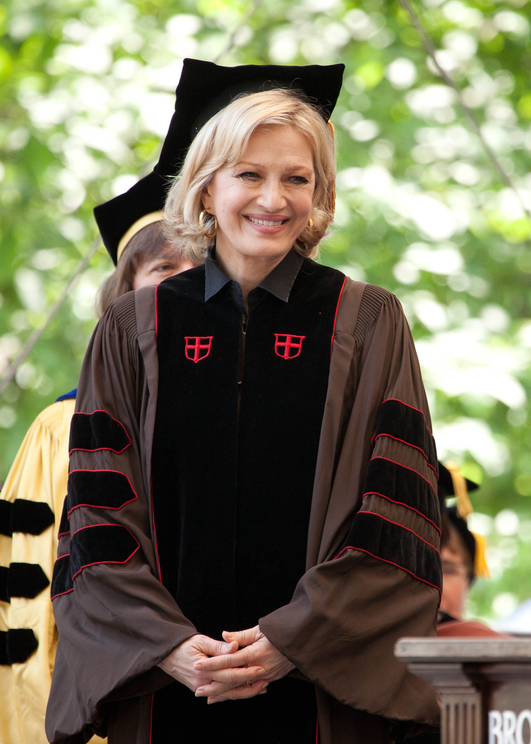 Diane Sawyer receives honorary degree from Brown University in 2012